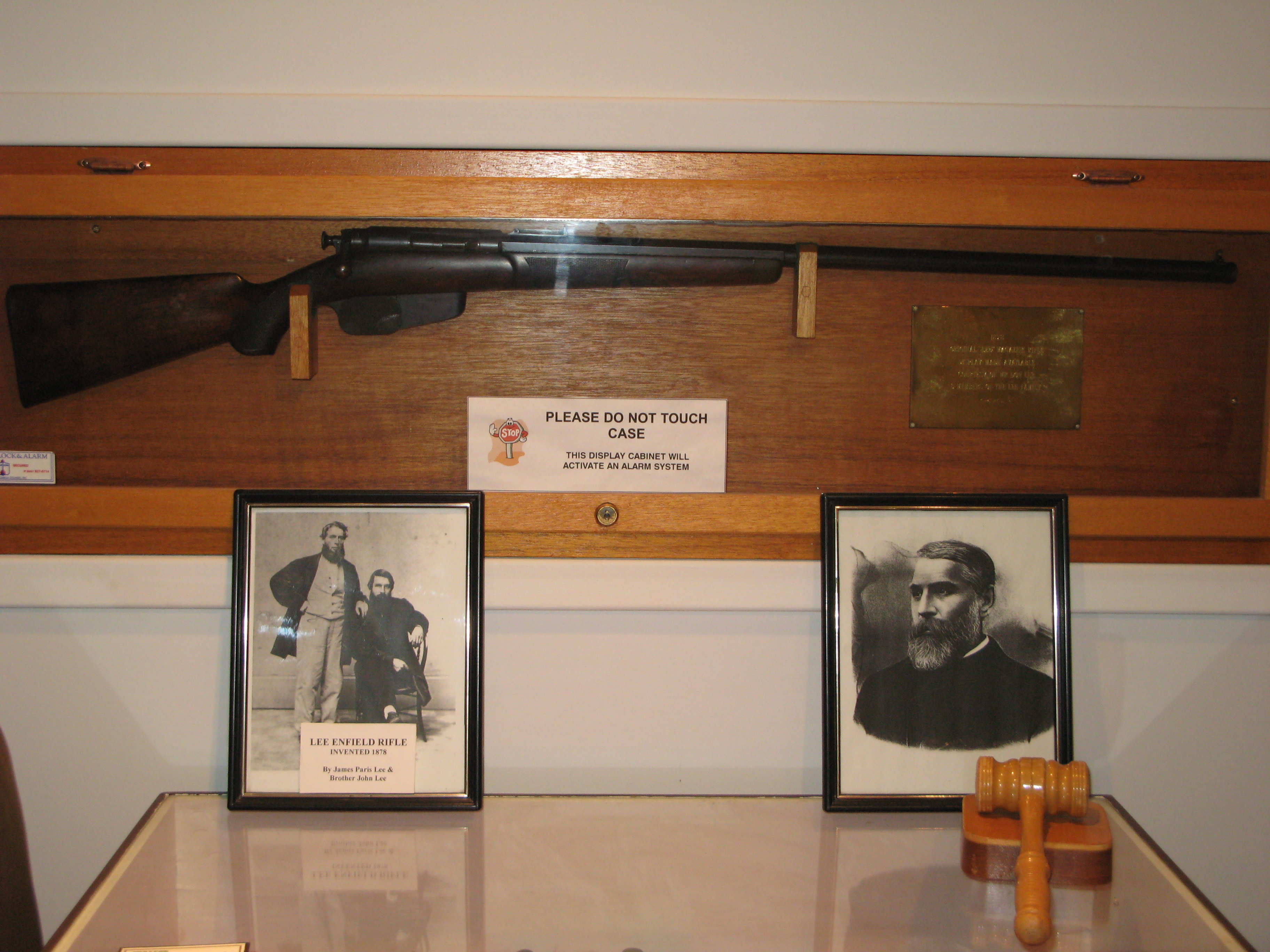 Lee Rifle Prototype. It was made in Wallaceburg in 1878. It is currently housed at the Wallaceburg and District Museum. The picture is taken of the rifle at the museum location. As you can see the rifle has a protective lock over the trigger.